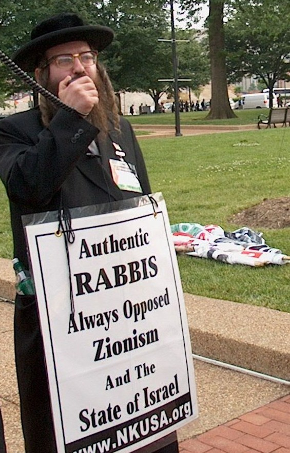 Yisroel Dovid Weiss speaks outside Washington DC convention center where AIPAC is holding its annual conference.